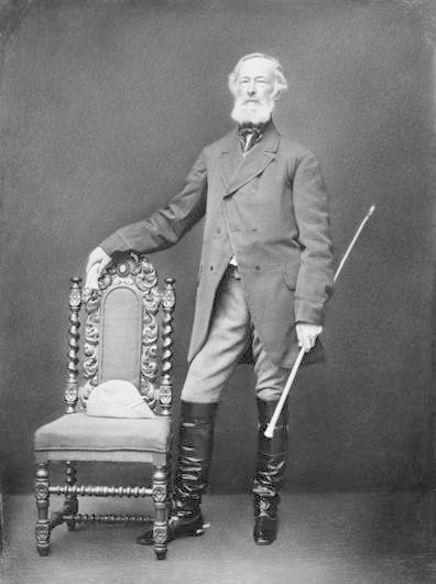 Alfred Krupp, in riding dress. The blueprint for the painting „Alfred Krupp, im Reitergewand“ by Julius Gruen (1800).